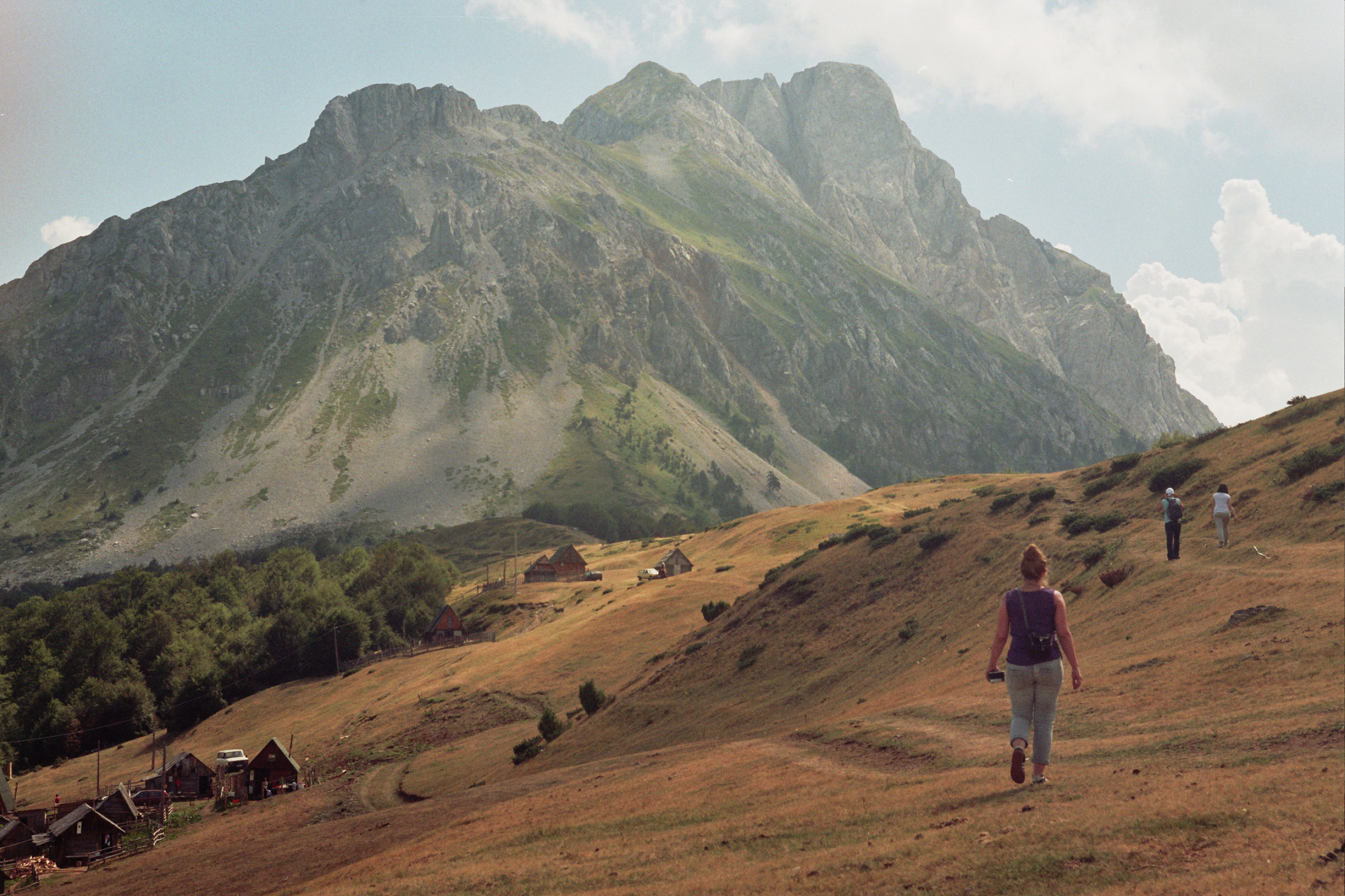 komovi montenegro bjelasica mountain crna gora